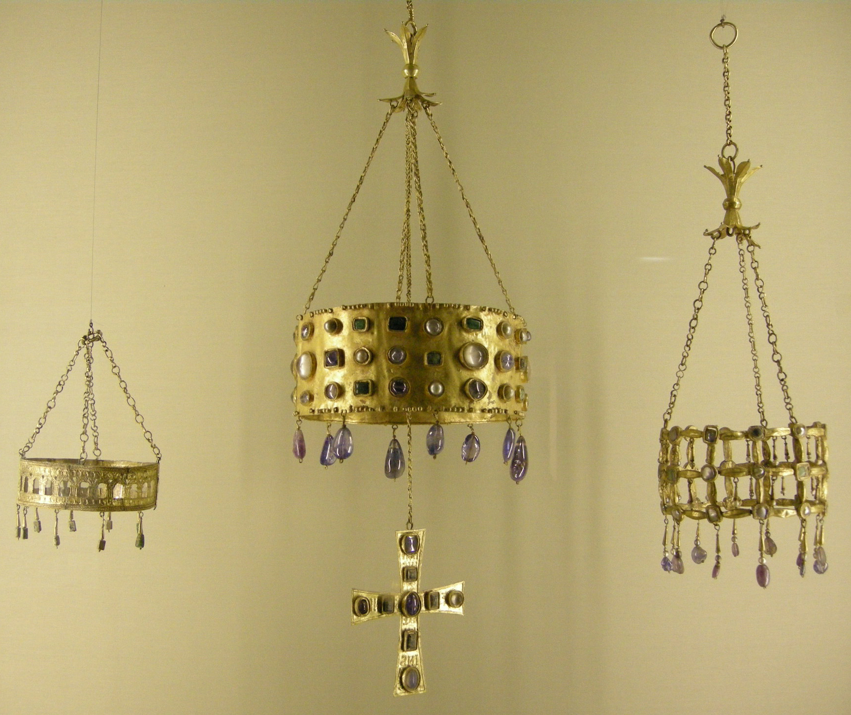 Mnma, visigothic votive crowns, VII century